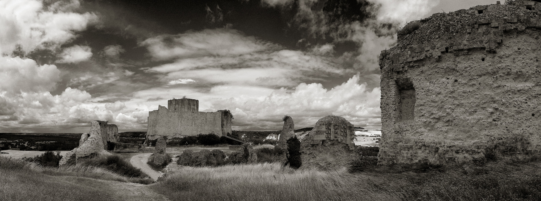 The ruins of Château-Gaillard in black and white